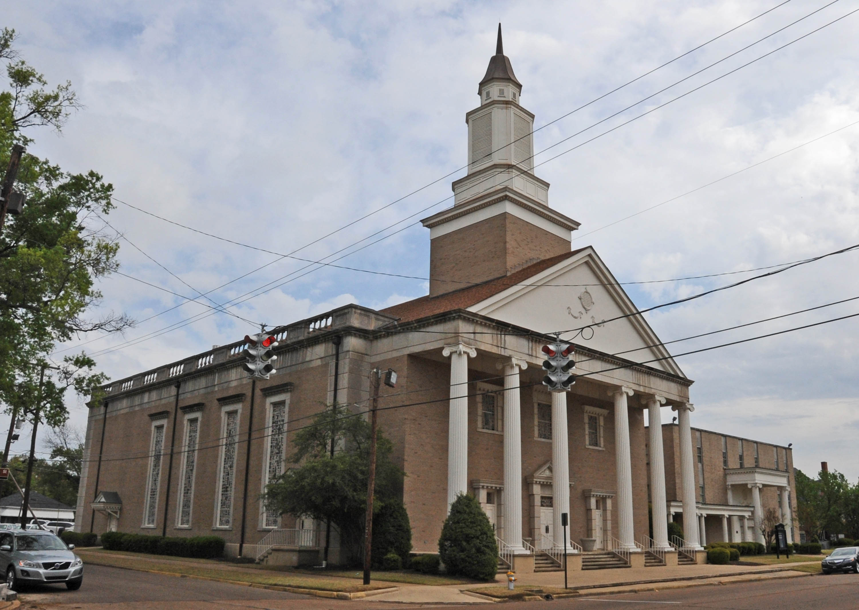 FIRST BAPTIST CHURCH - CIRCA 1908